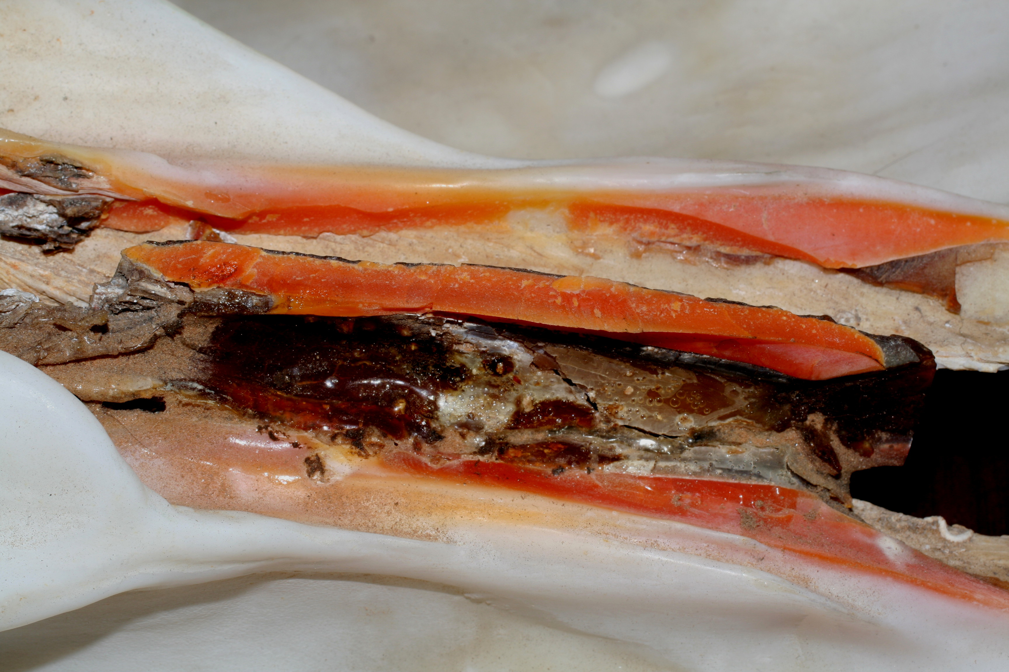 Tridacnidae: Tridacna derasa hinge ligament